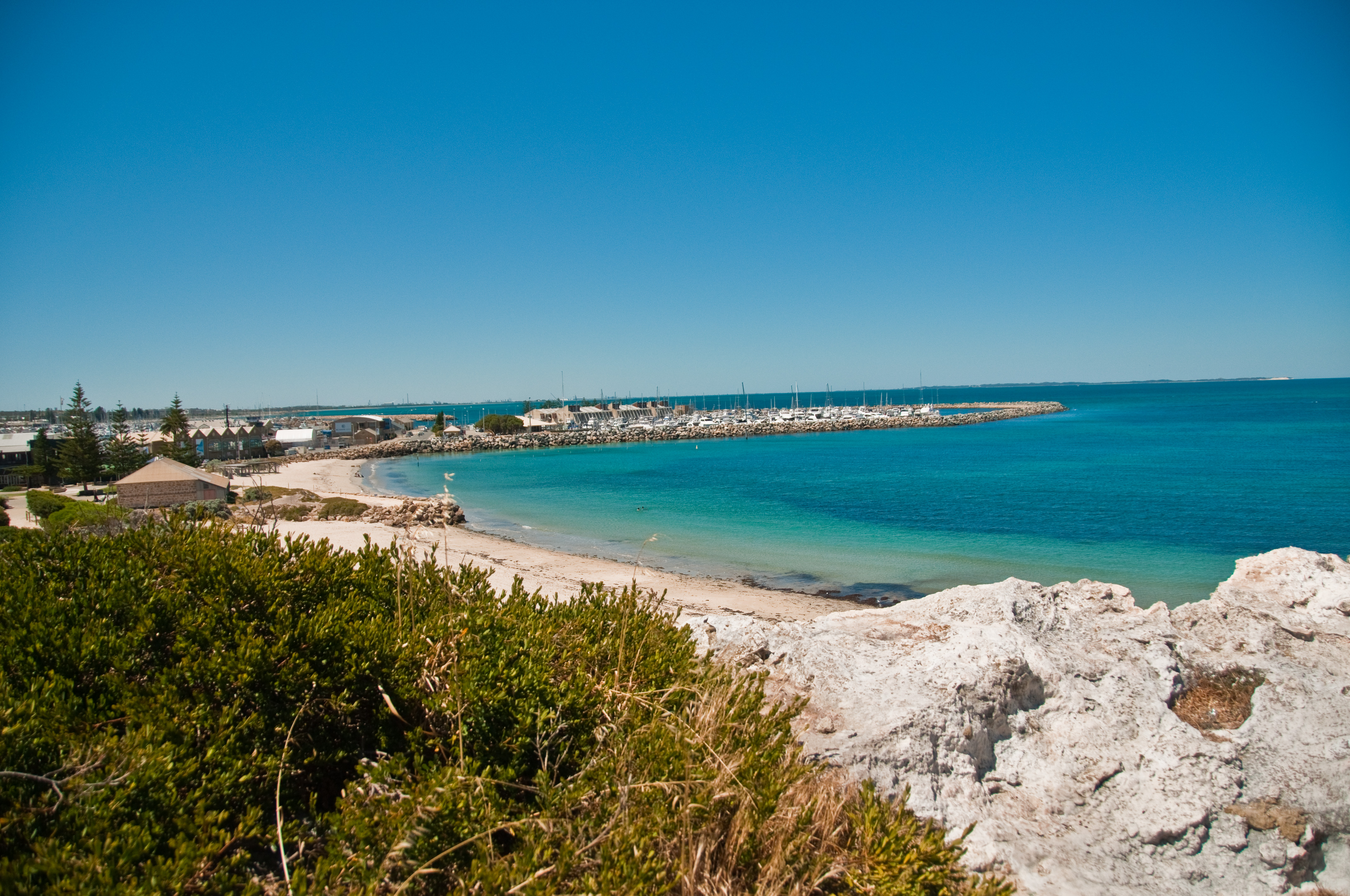 Bathers Beach, Fremantle, Western Australia. Old Kerosene Store on the left.